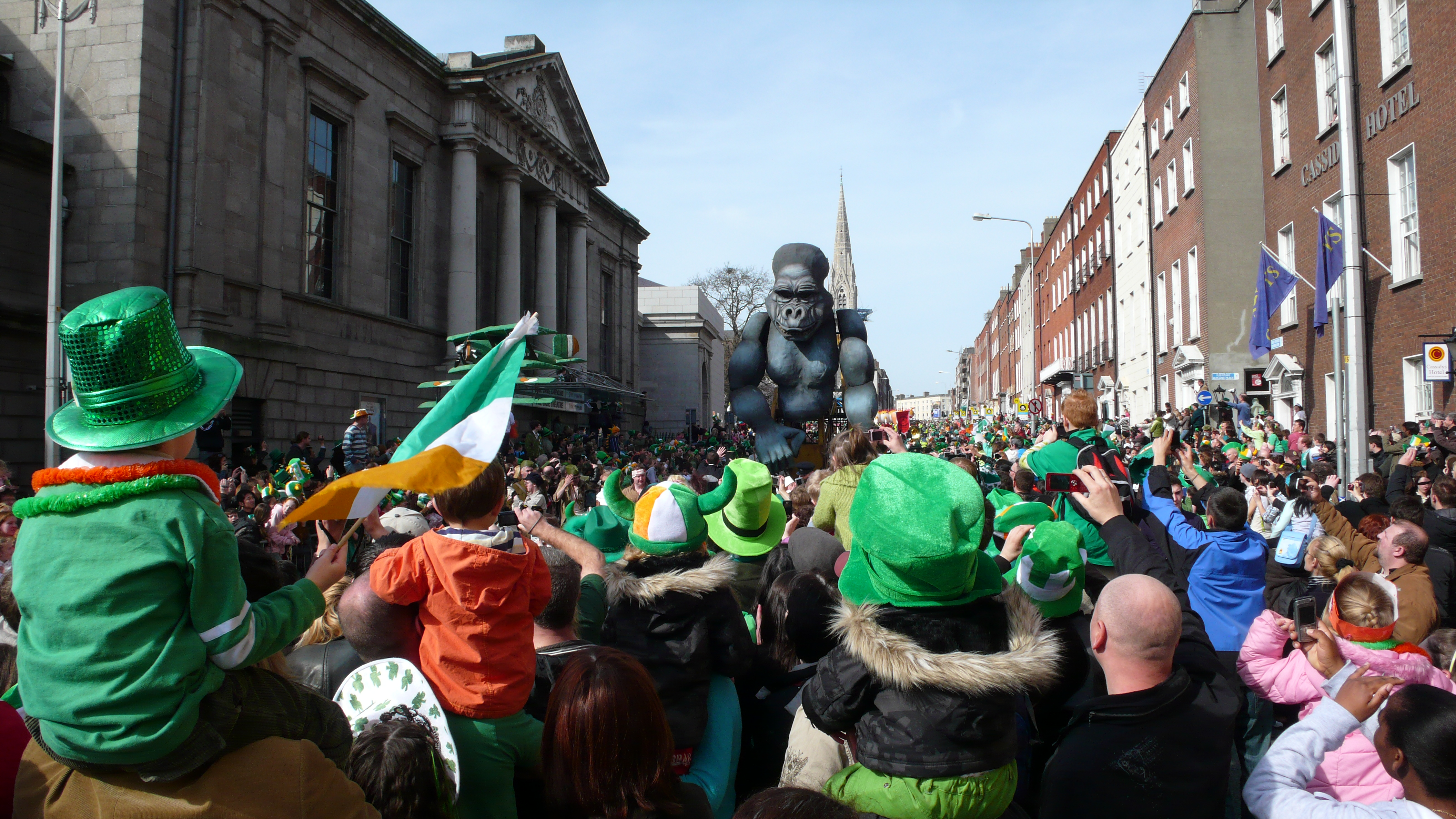 St. Patrick`s Parade in Dublin 2009